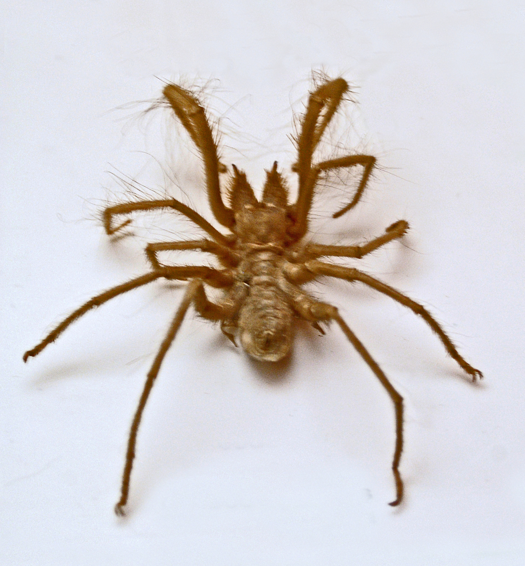 Galeodes arabs from Lybia on display at the Museo Civico di Storia Naturale di Milano